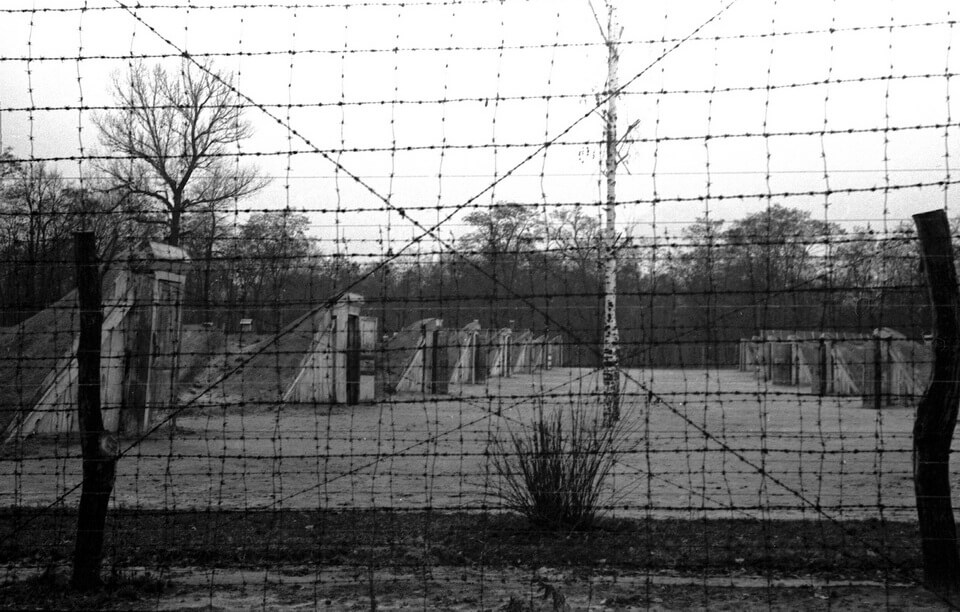 Syrets concentration camp (also: Syretskij concentration camp), a Nazi German concentration camp erected in 1942 in a Kiev's western neighborhood of Syrets. Barbed wire fence.